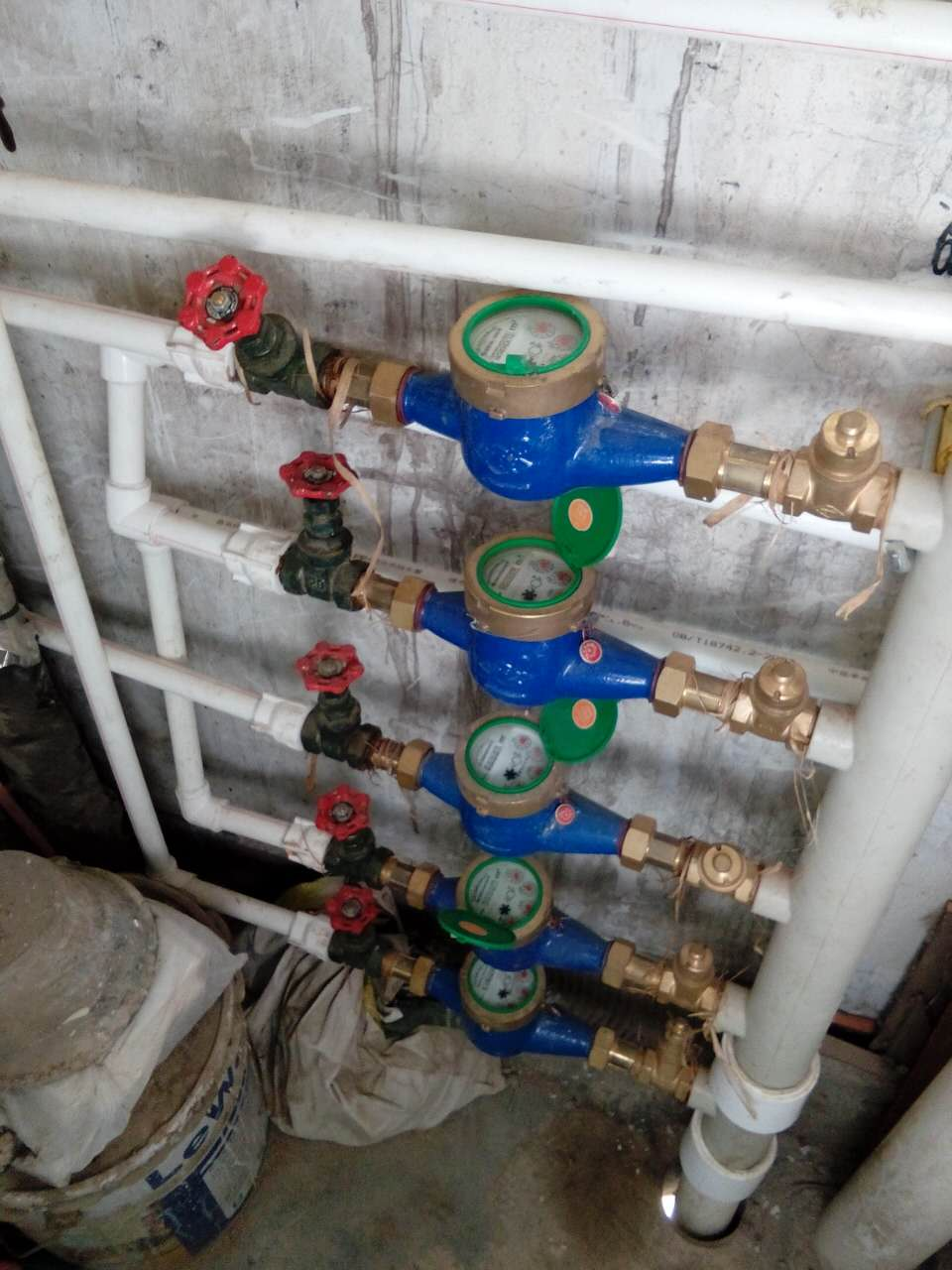 Water meter in building